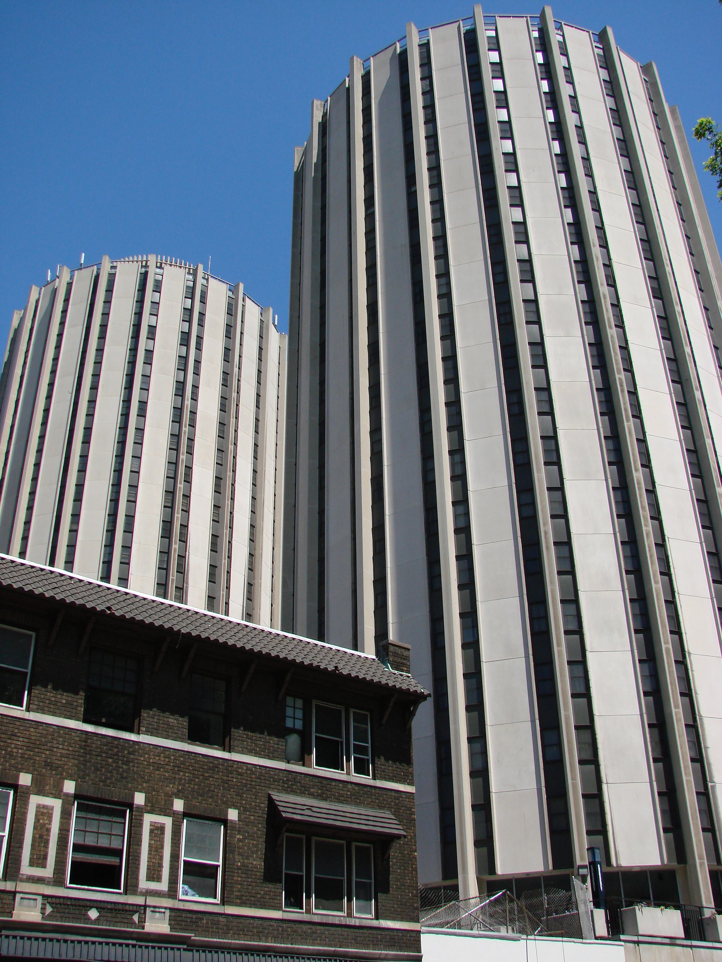 2008-05-25 Pittsburgh 135 Oakland, Litchfield Towers. The building housing Essie's Original Hot Dog shop is visible in the bottom left.